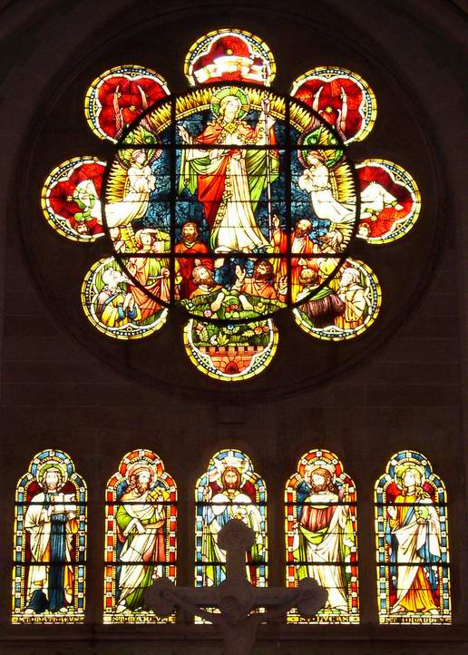 colored window in the church "Himmelfahrtskirche" Dresden-Leuben, Germany (erected 1901)